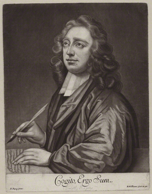 Portrait of Timothy Rogers (1658–1728), English nonconformist minister.